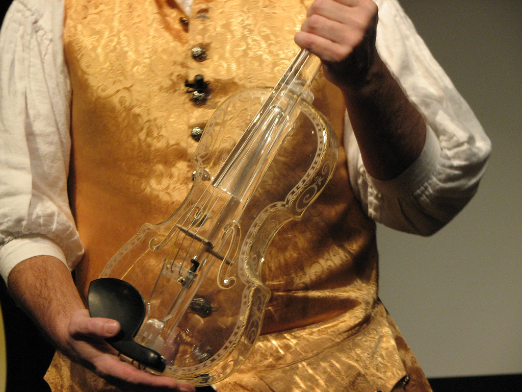 A glass violin, held by Dean Shostak.